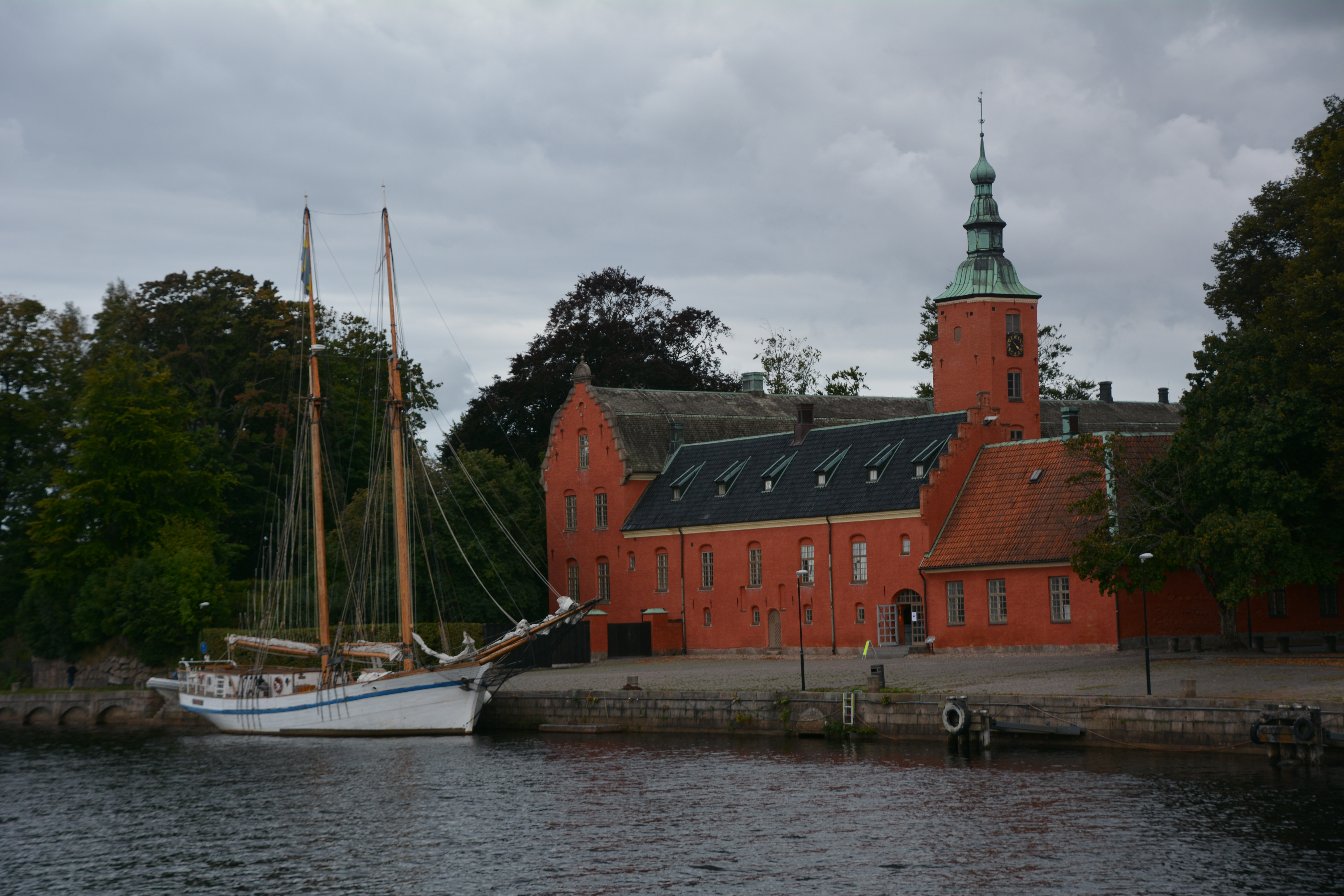 Tre hjärtan framför Halmstads slott